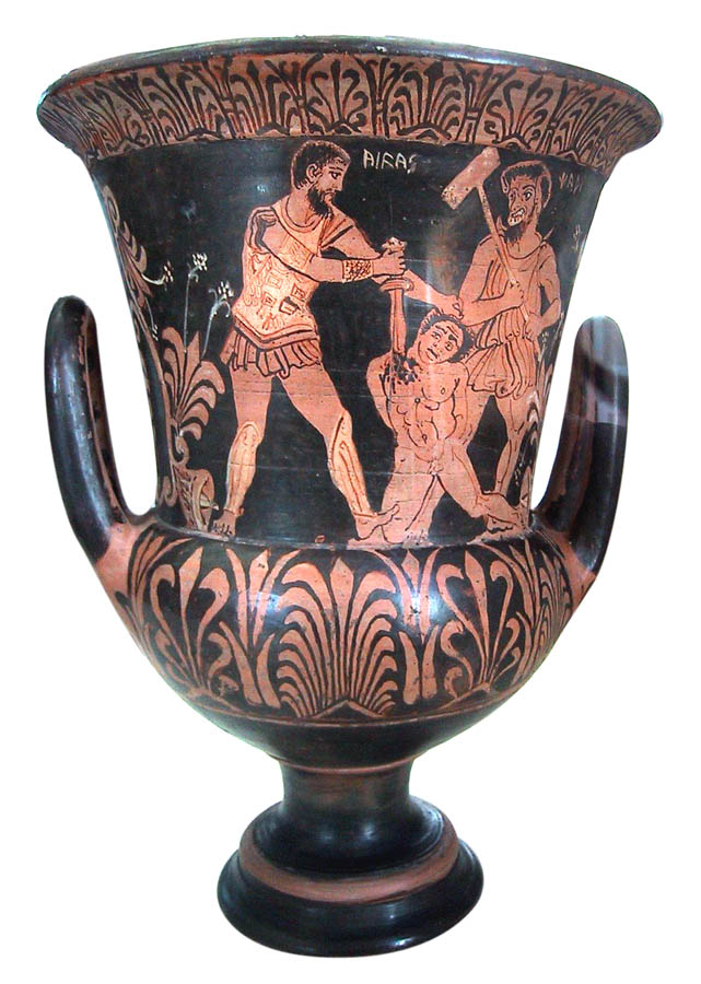 Ajax (etruscan Aivas) killing a Trojan prisonner in front of Charun (the Etruscan demon of death, related to the Greek Charon) armed with a hammer. Side A from an Etruscan red-figure calyx-crater, end of the 4th century BC–beginning of the 3rd century BC.